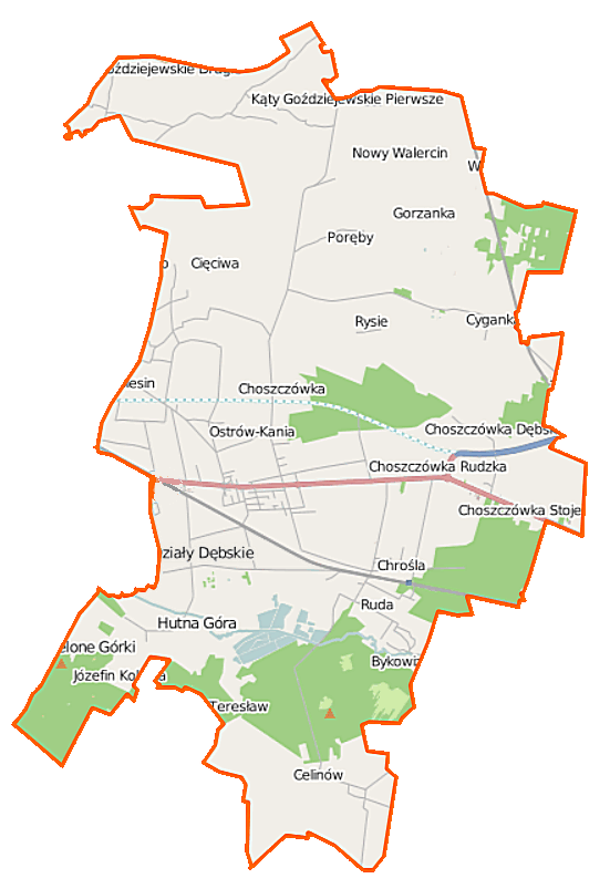 Map of Gmina Dębe Wielkie, Poland This map of Dębe Wielkie (gmina) was created from OpenStreetMap project data, collected by the community. This map may be incomplete, and may contain errors. Don't rely solely on it for navigation. Border coordinates52.273021.3801←↕→21.531852.1379